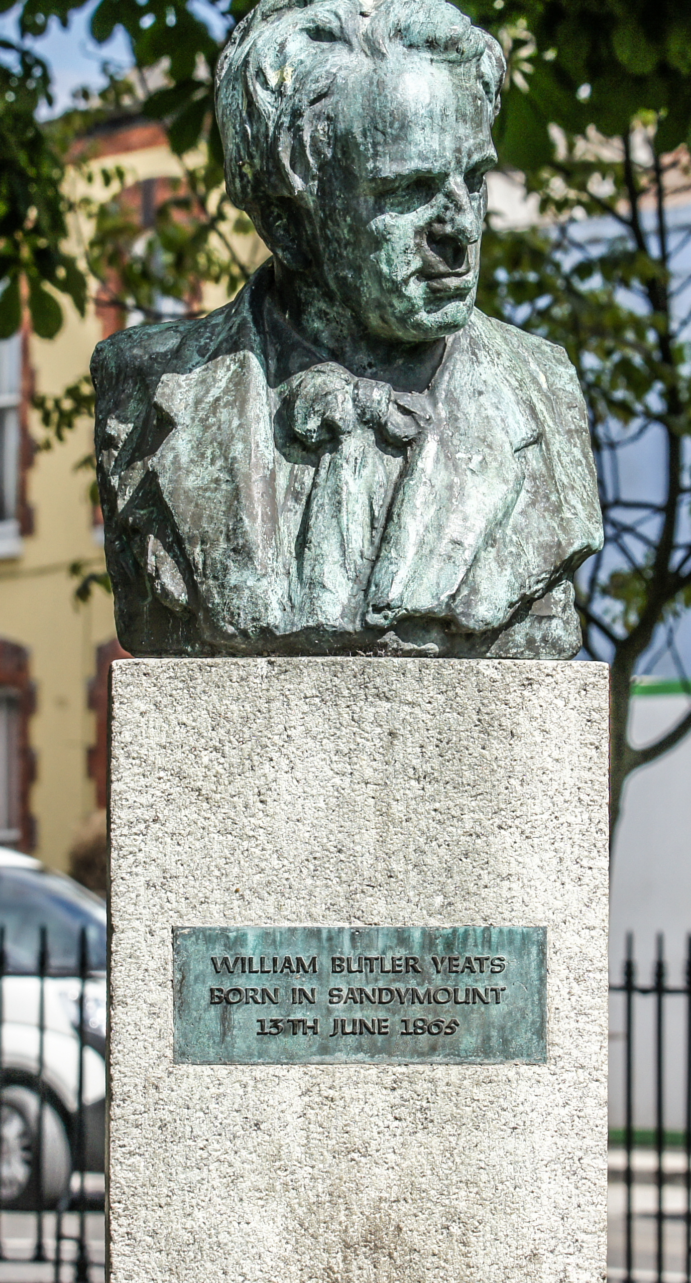 Bust of William Butler Yeats at Sandymount Green, Dublin, Ireland